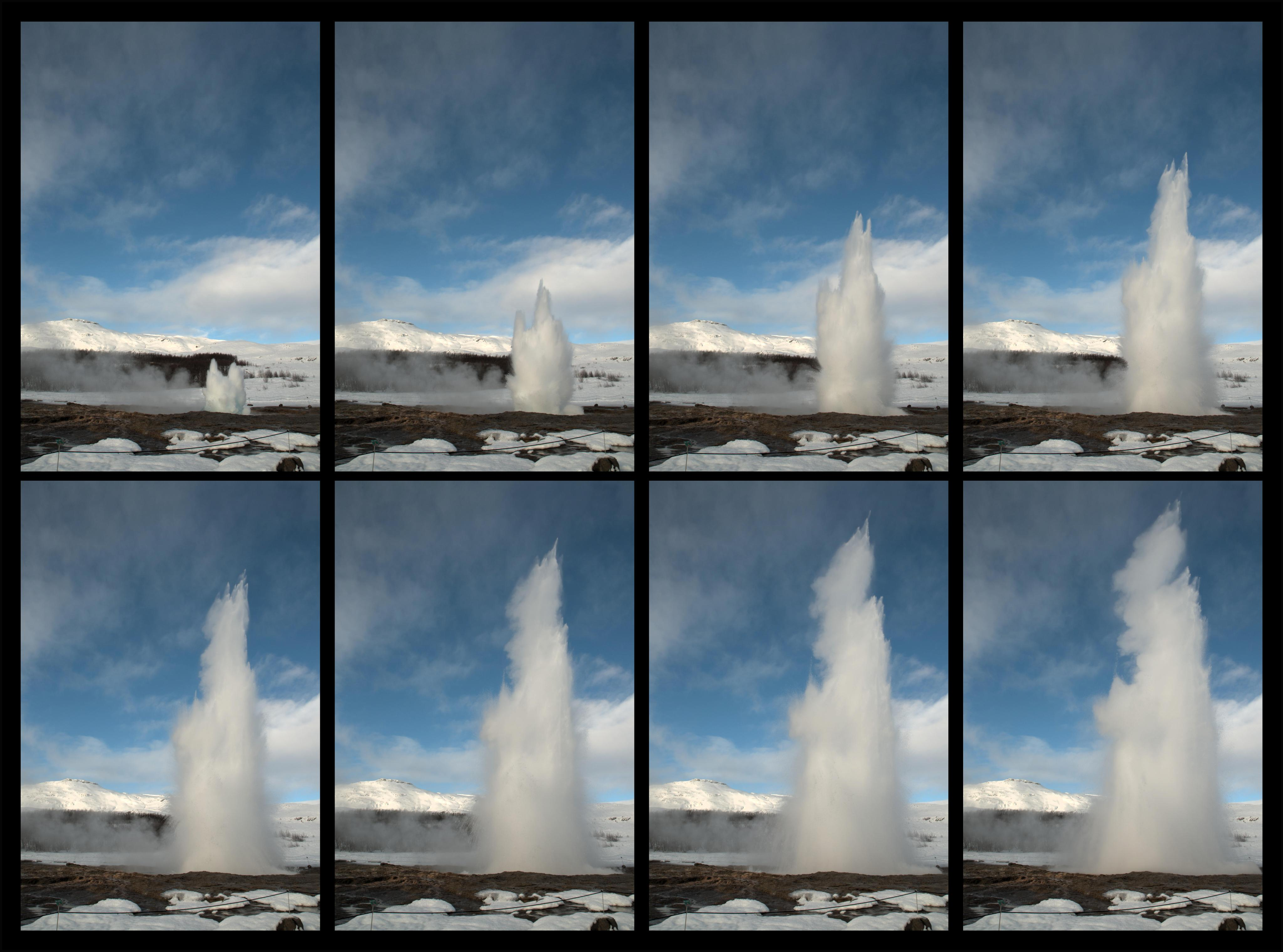 Sequence of an eruption of The Great Geysir. Taken with Nikon D90 + Tamron f/2.8, 17-50 mm lens. 17 mm focus, f/16, 0.005 s exposures.